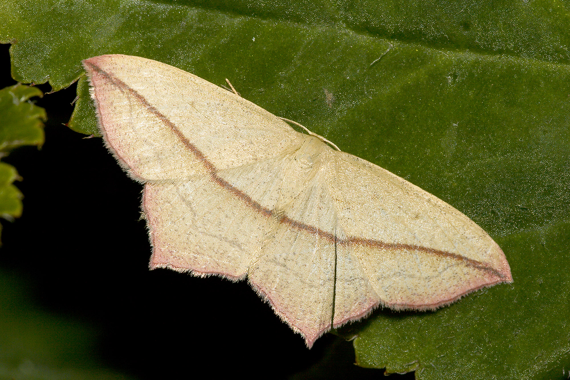 Blood-vein (Timandra comae)